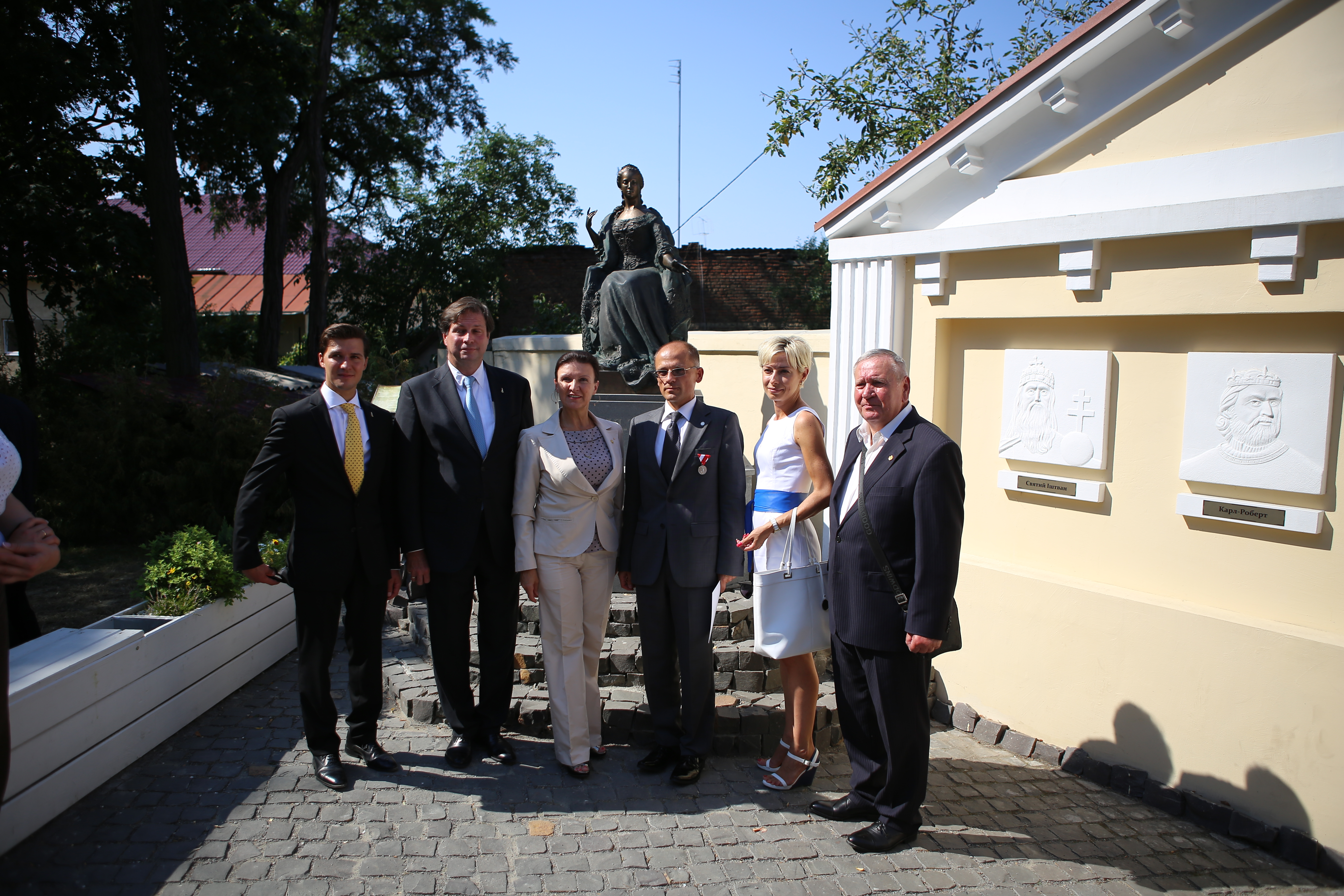 Meeting in Maria Theresia Garden Square